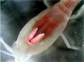 Rimicaris exoculata, species of shrimp wit eyes on their backs